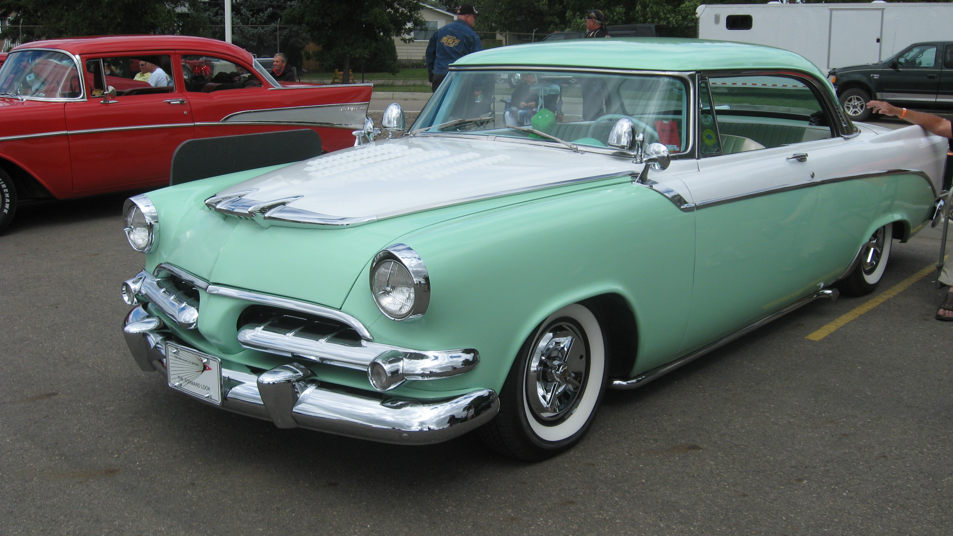 restored '56 dodge coronet lancer, shot at local car show/swap meet